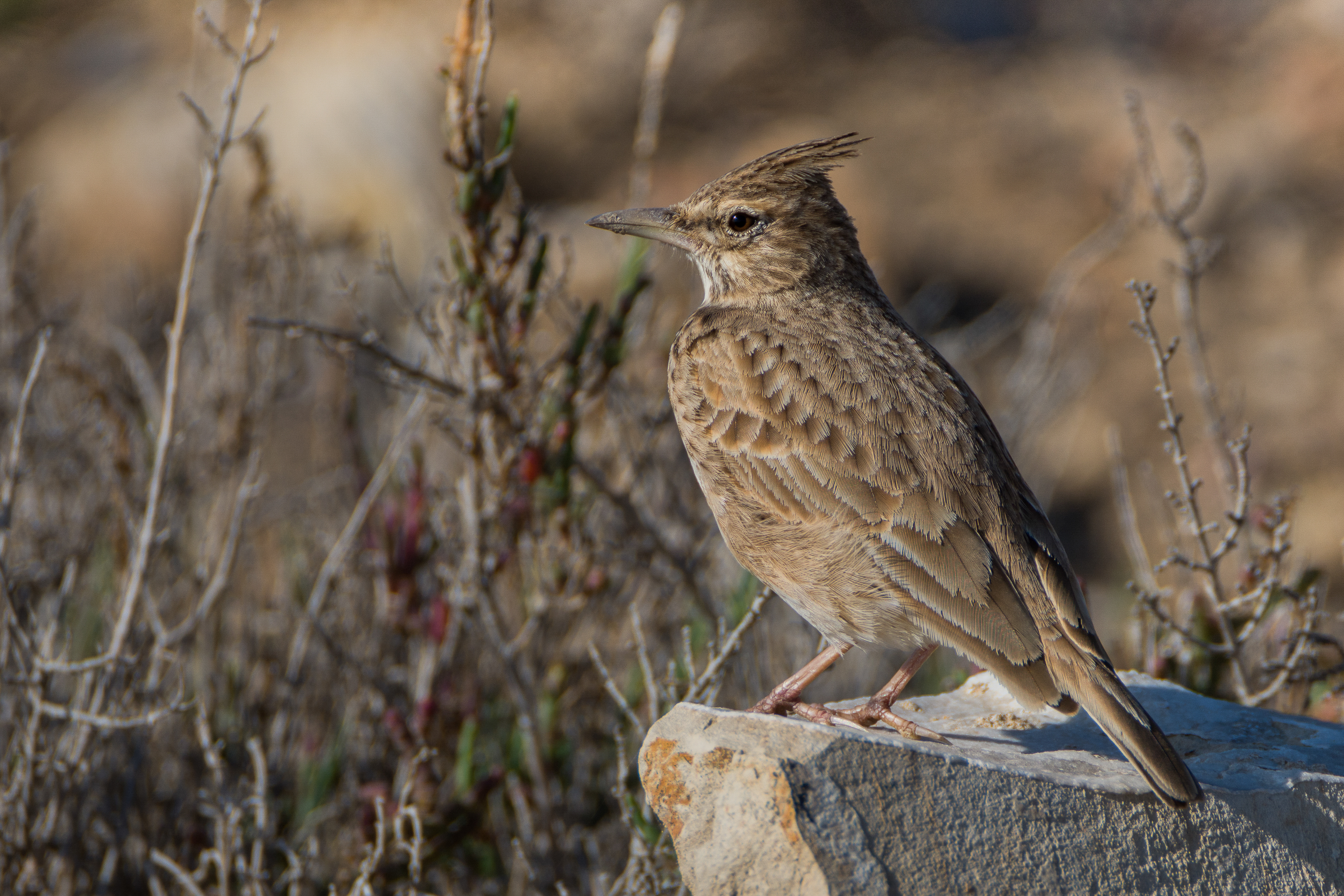 Cochevis huppé Galerida cristata - Crested Lark